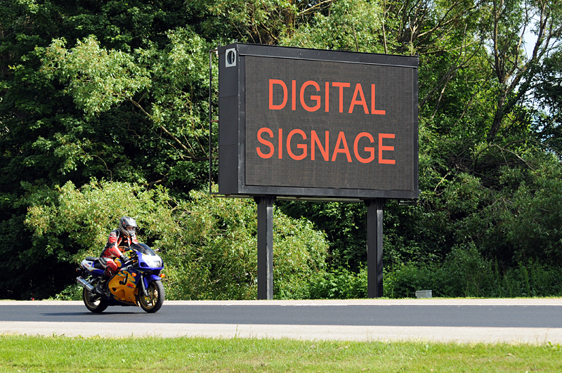 Digital Signage